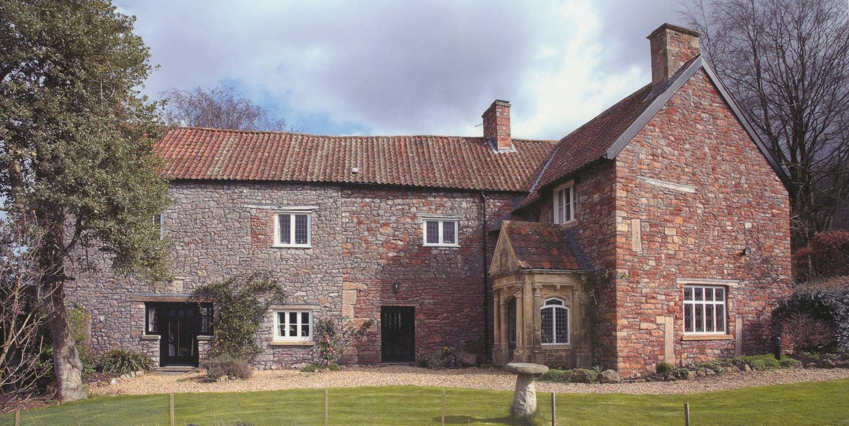 Over Langford Manor from the West. Picture taken by Dr Christopher Lee in Autumn 2006